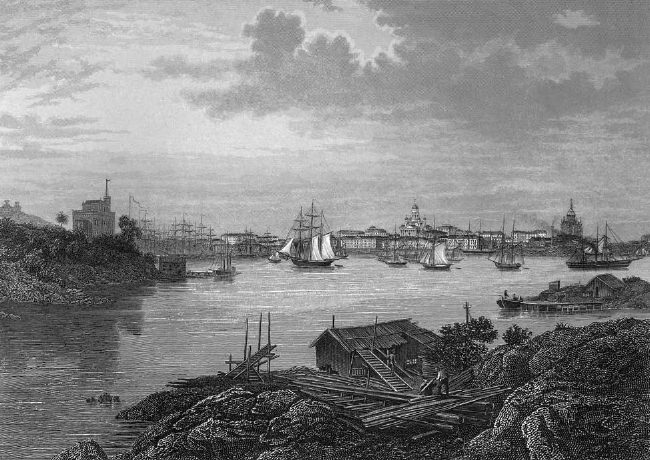 Port of Helsinki, by Bernhard Reinhold.